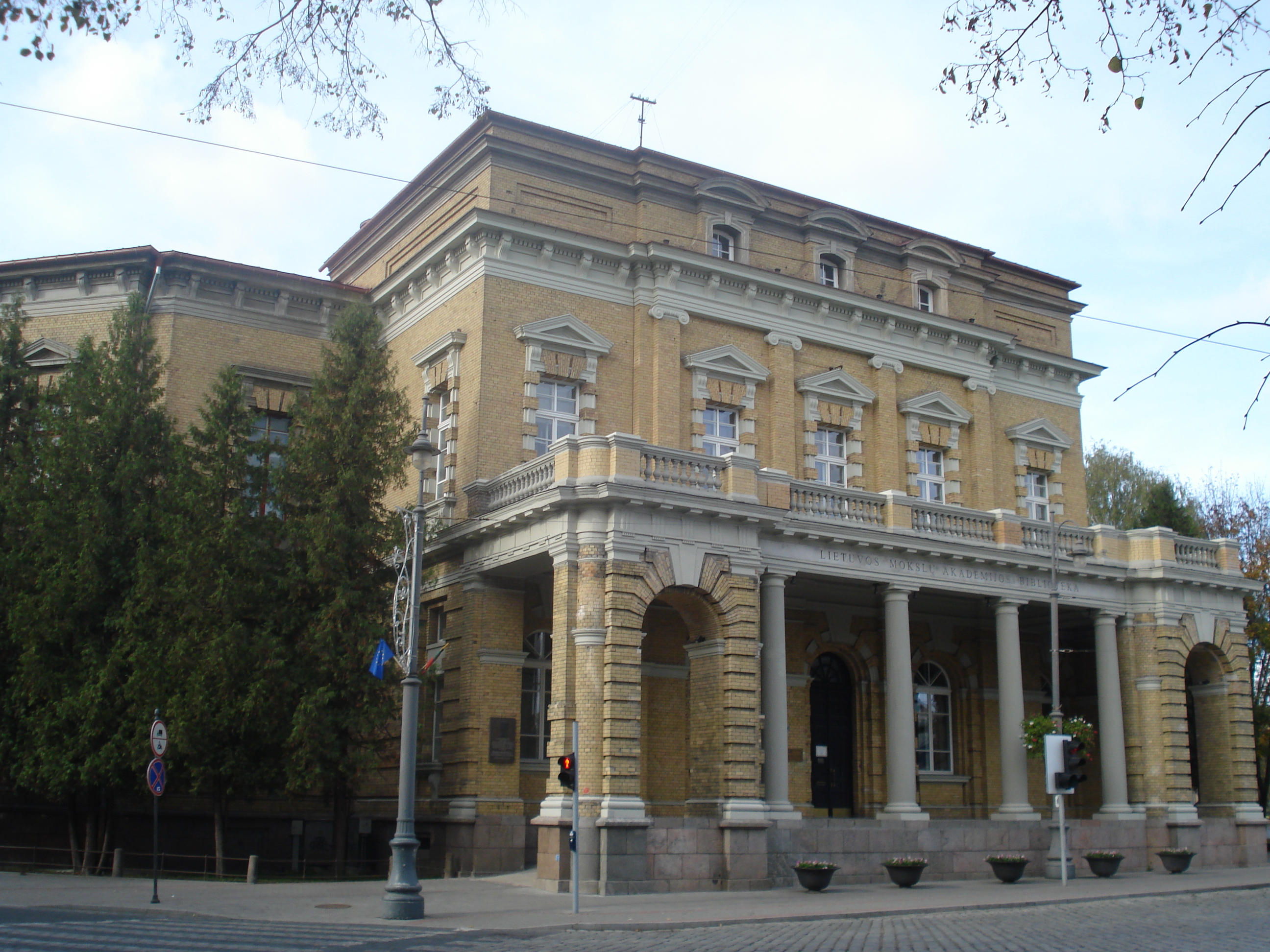 The Library of the Lithuanian Academy of Sciences (Žygimantų 1/8). Build 1885 as palace of Klementyna Tyszkiewicz. Architect Kiprianas Maciulevičius.